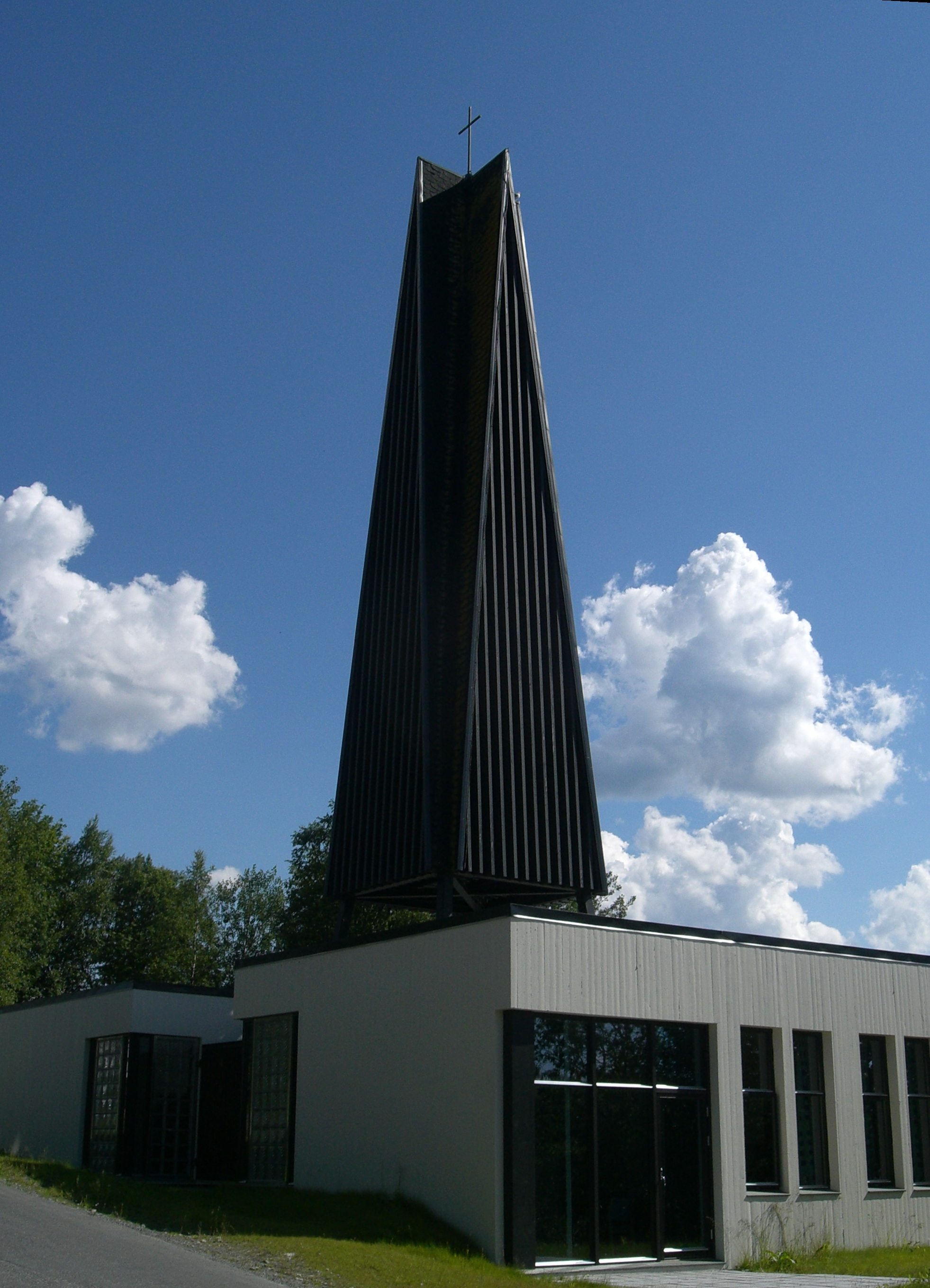 Finnsnes, administrative center of Lenvik, province of Troms, Norway. Summer 2007